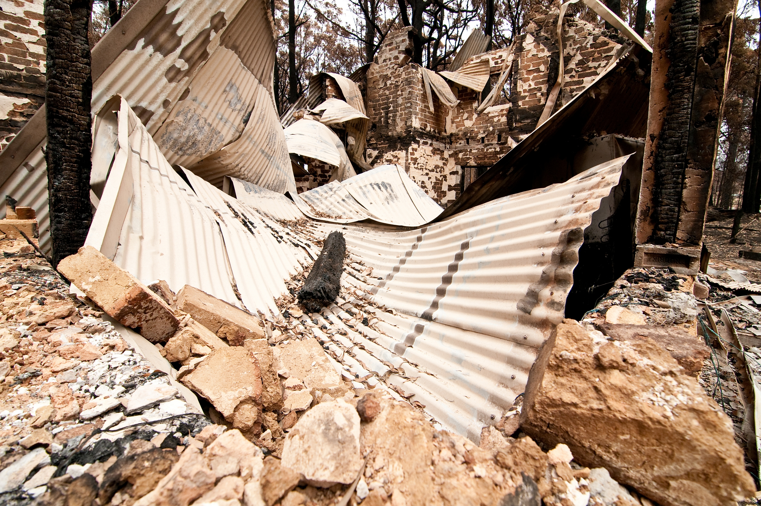 CSIRO is a participating agency in the Bushfire Cooperative Research Centre which has been looking at the key issues in the February 2009 bushfires. The CRC's Bushfire Research Task Force includes researchers from various state fire agencies and research organisations with expertise in building analysis, human behaviour, community education, bushfire behaviour, fire weather, and fire investigation. The purpose of the research is to provide fire and land management agencies with independent analyses of the factors surrounding the Victorian fires. CSIRO researchers from the Bushfire Dynamics and Applications Group, the Bushfire Urban Design project and the Remote Sensing team, will be involved with two areas of research: strategic fire behaviour - how the fires moved across different landscapes and different vegetation and under variable weather conditionsbuilding (infrastructure) and planning issues - patterns of loss and patterns of survival of build